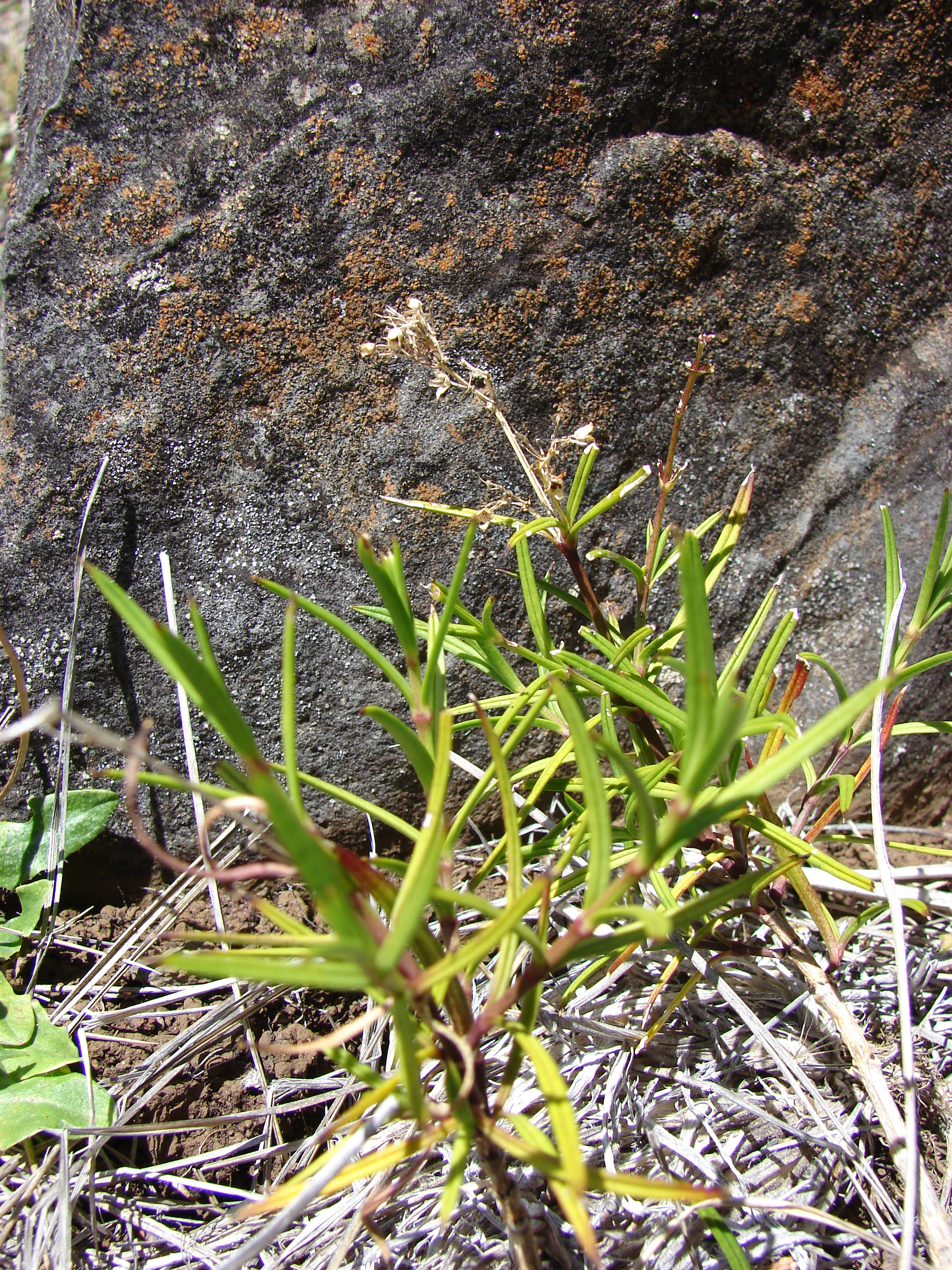 Schiedea haleakalensis (habit). Location: Maui, Old Switchbacks Trail Haleakala National Park